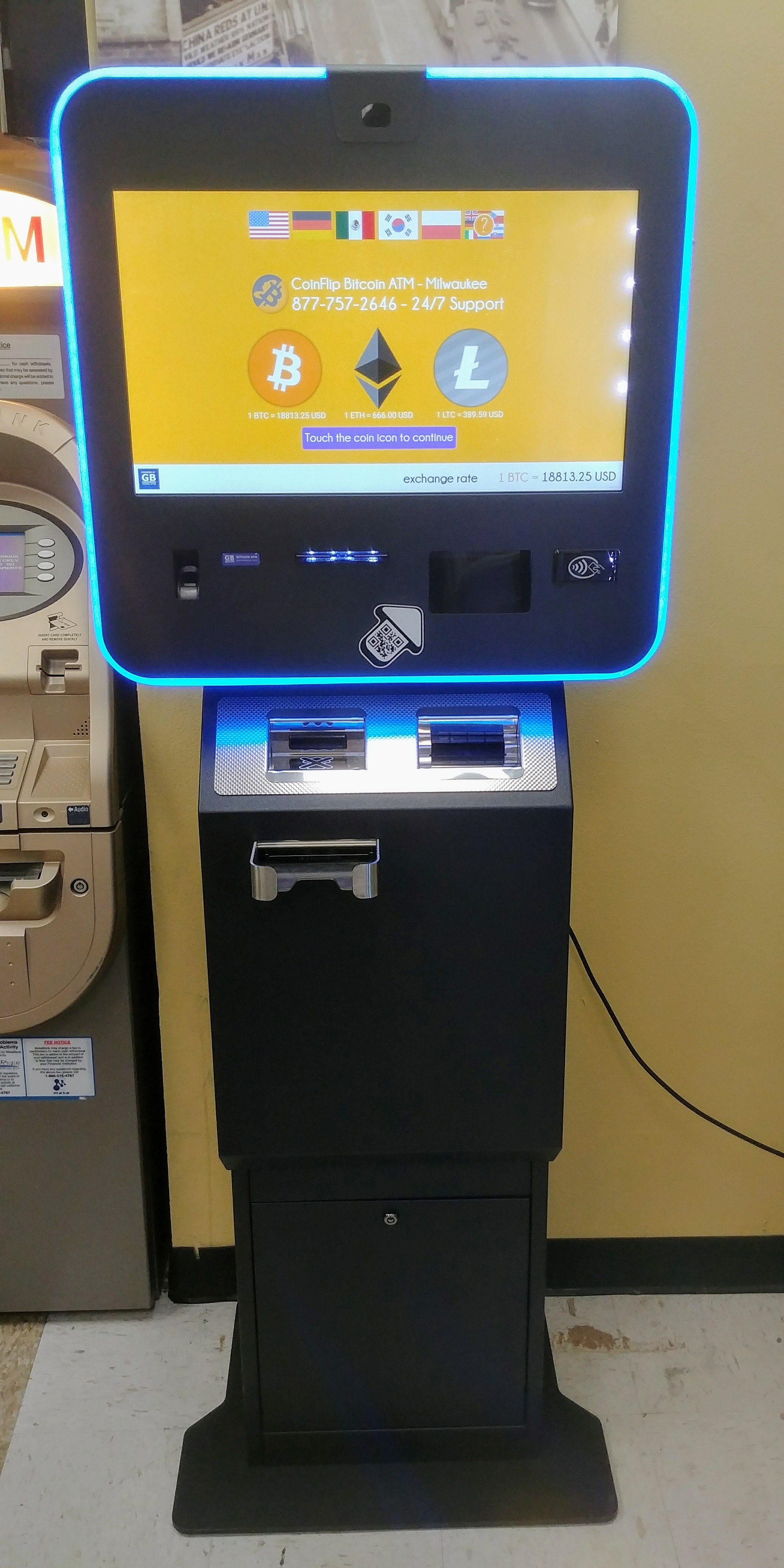 This is a a cryptocurrency ATM. Manufacturer is GeneralBytes, operator is CoinFlip. Photo taken in Shelton's Bar of West Peoria, Illinois.